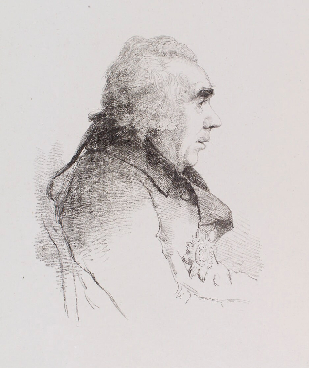 It is from the Public Records Office of Northern Ireland from the collection of private papers donated from Stewart of Killymoon